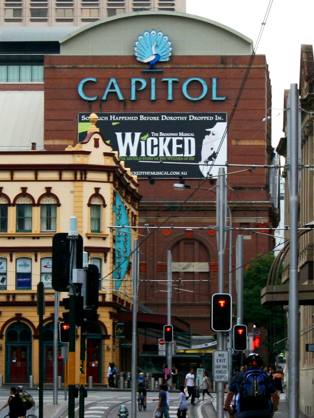 Capitol Theatre, photo taken from Paddy's Markets.